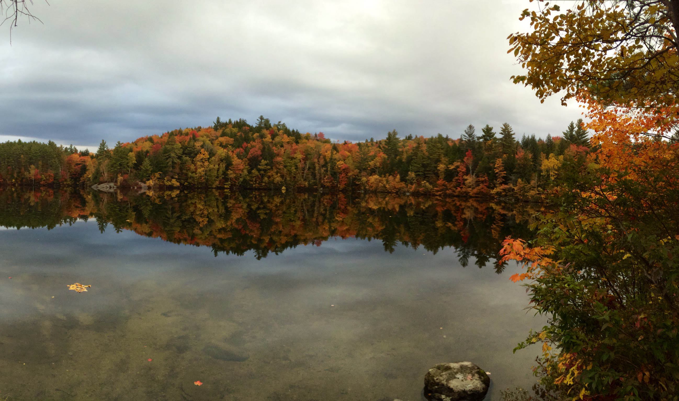 Photograph of Mirror Lake. The watersheds of the Hubbard Brook Experimental Forest drain into Hubbard Brook, and then into Mirror Lake.